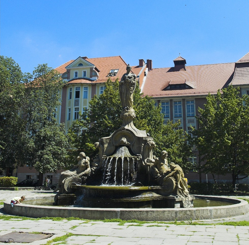 The fountain on the Daszynski's square in Opole, Poland, sculpted by Edmund Gomansky